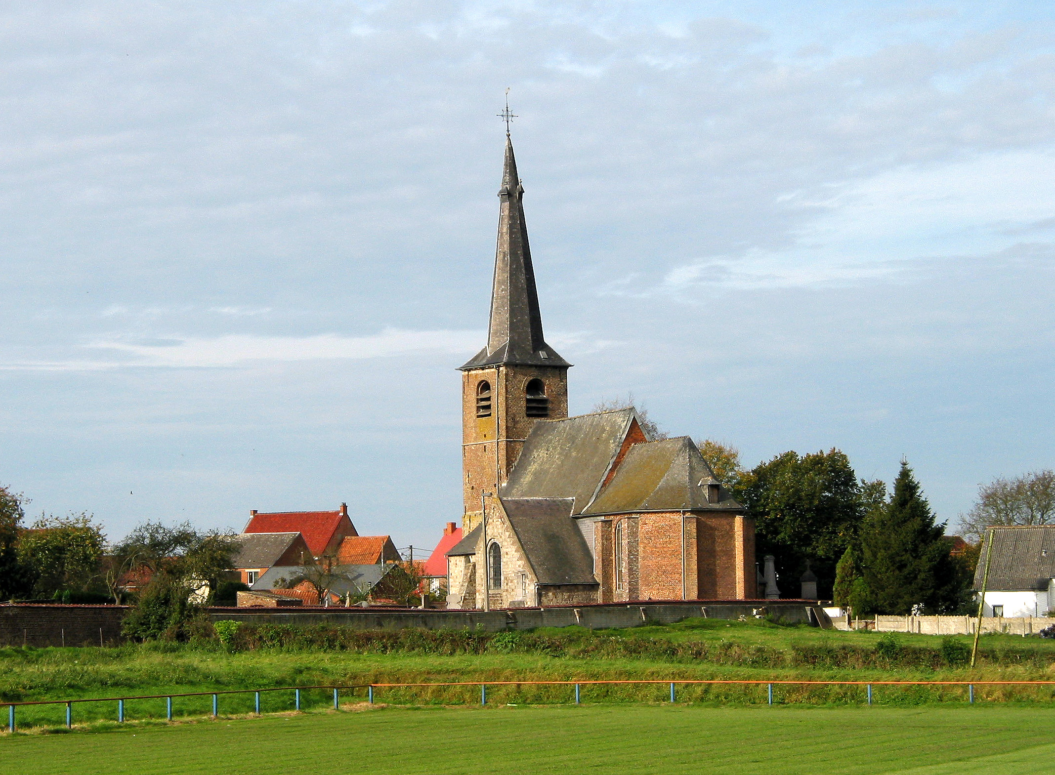 Quévy-le-Grand (Belgium), the Saint Peter’s church (XVI/XVIIIth centuries).